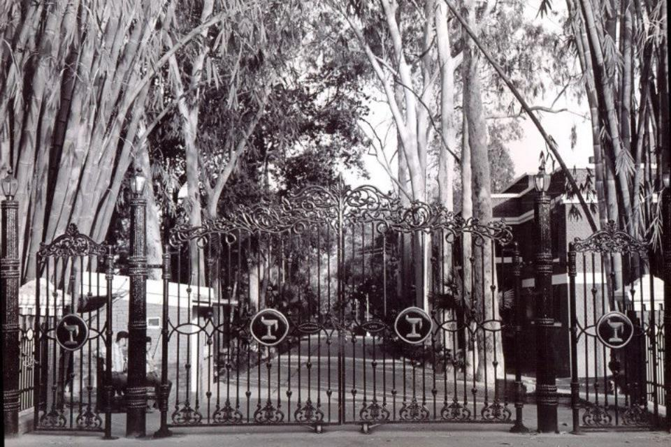 Main Gate of The Doon School, India.